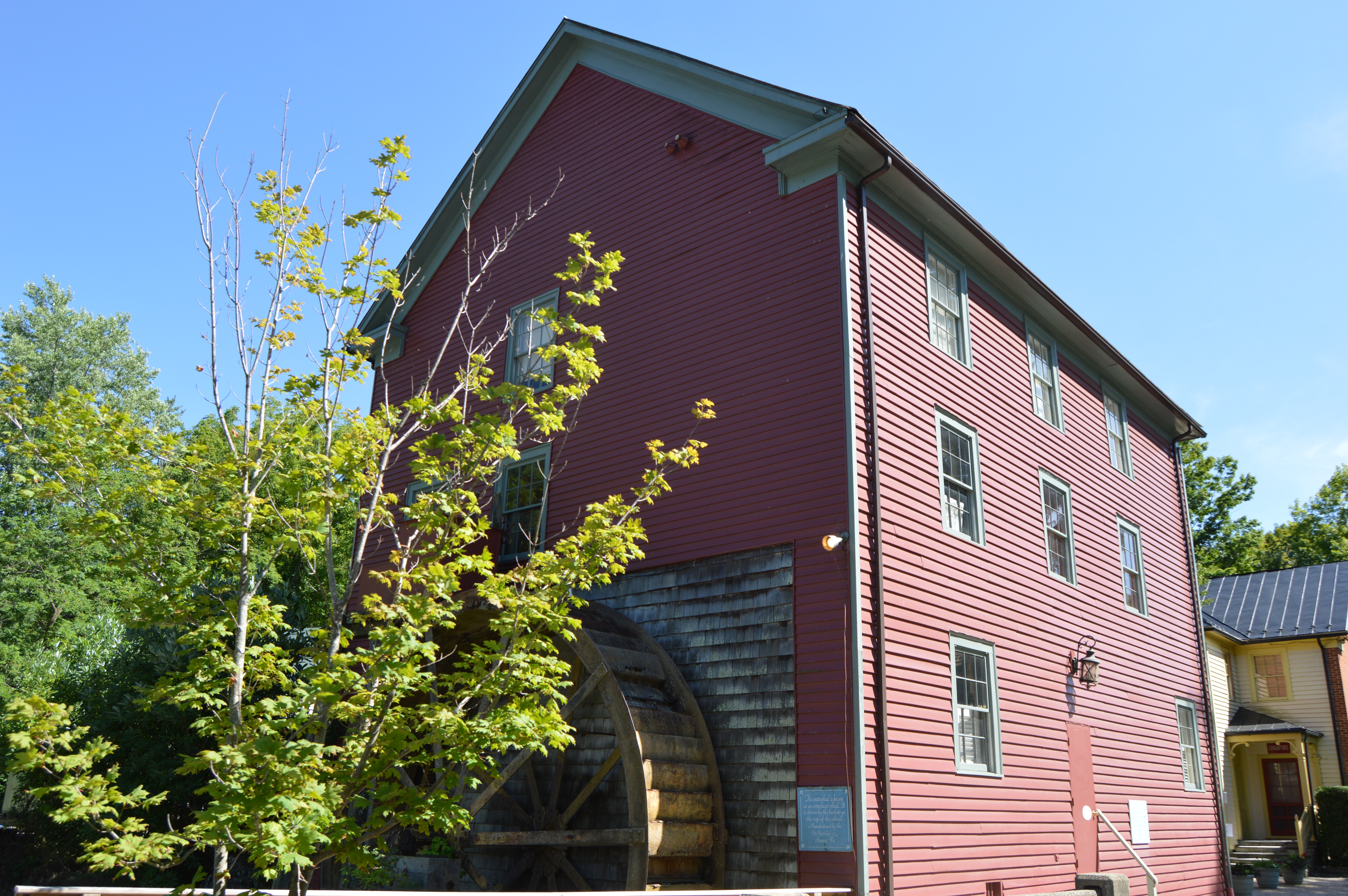 Northern and western sides of the Warm Springs Mill (now a restaurant), located on Old Mill Road in Warm Springs, Virginia, United States. Built in 1901, it is listed on the National Register of Historic Places.